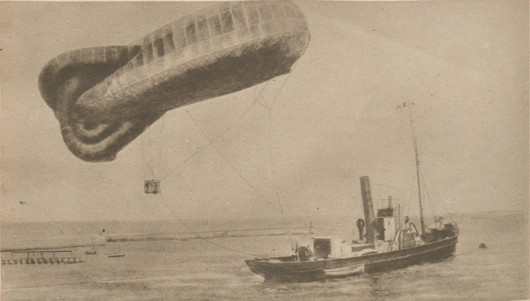 Captive observation balloon on a towing vessel to monitor the French coast against submarines in 1917. Photograph published by the French weekly The Mirror, December 2, 1917.